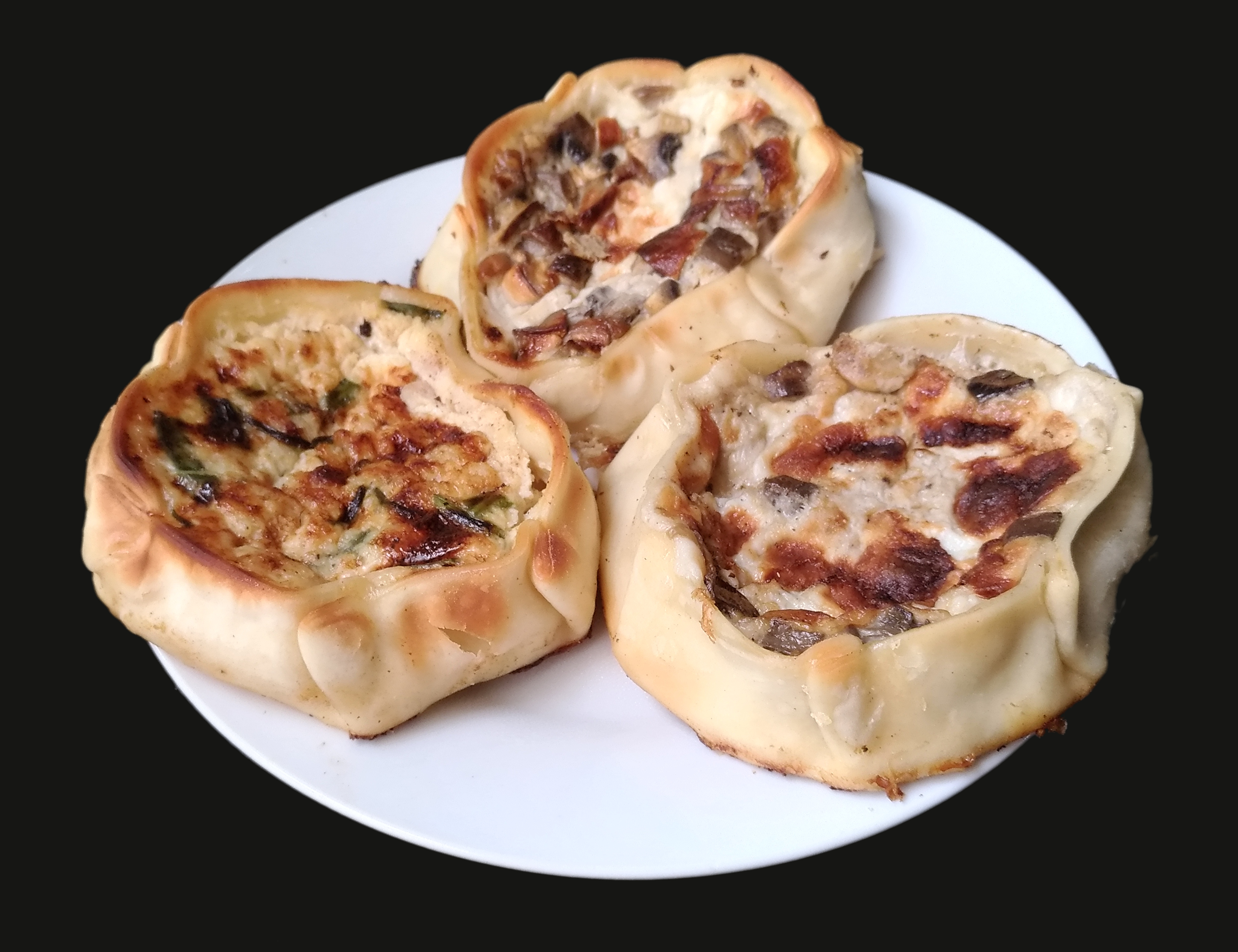 Perepechi, a dish of Udmurt cuisine